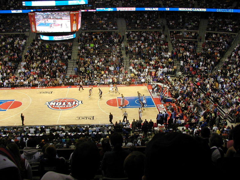 Detroit Pistons vs. the Memphis Grizzlies, Friday, January 27, 2006